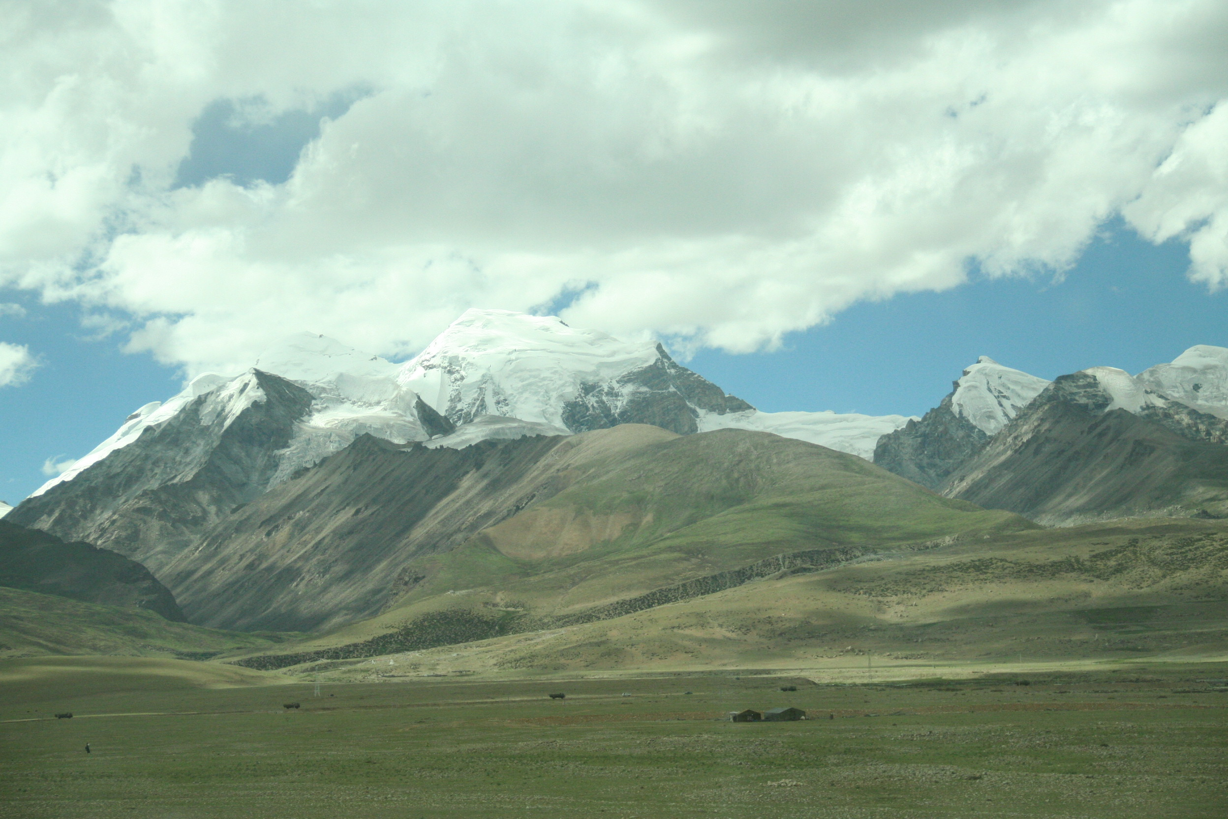 View from the train Beijing-Lhasa (Nyenchen Tanglha Mountains)